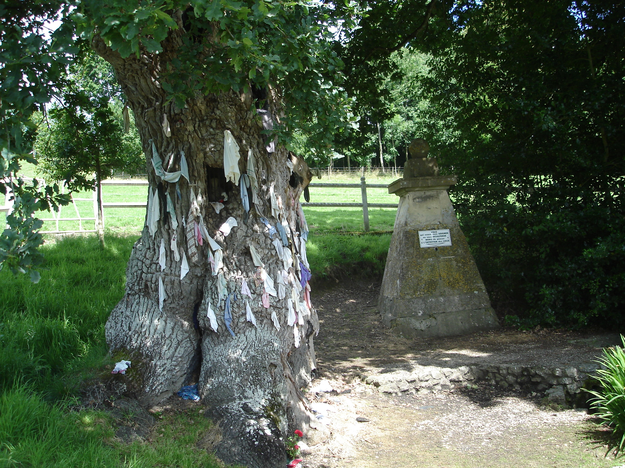 Miraculous source of Saint-Méen, which cures skin deseases. The sore must be cleaned with a tissue soaked with water, and requests must be addressed to Saint-Méen. The tissue is then hung to the thousand old oak, close to the source.